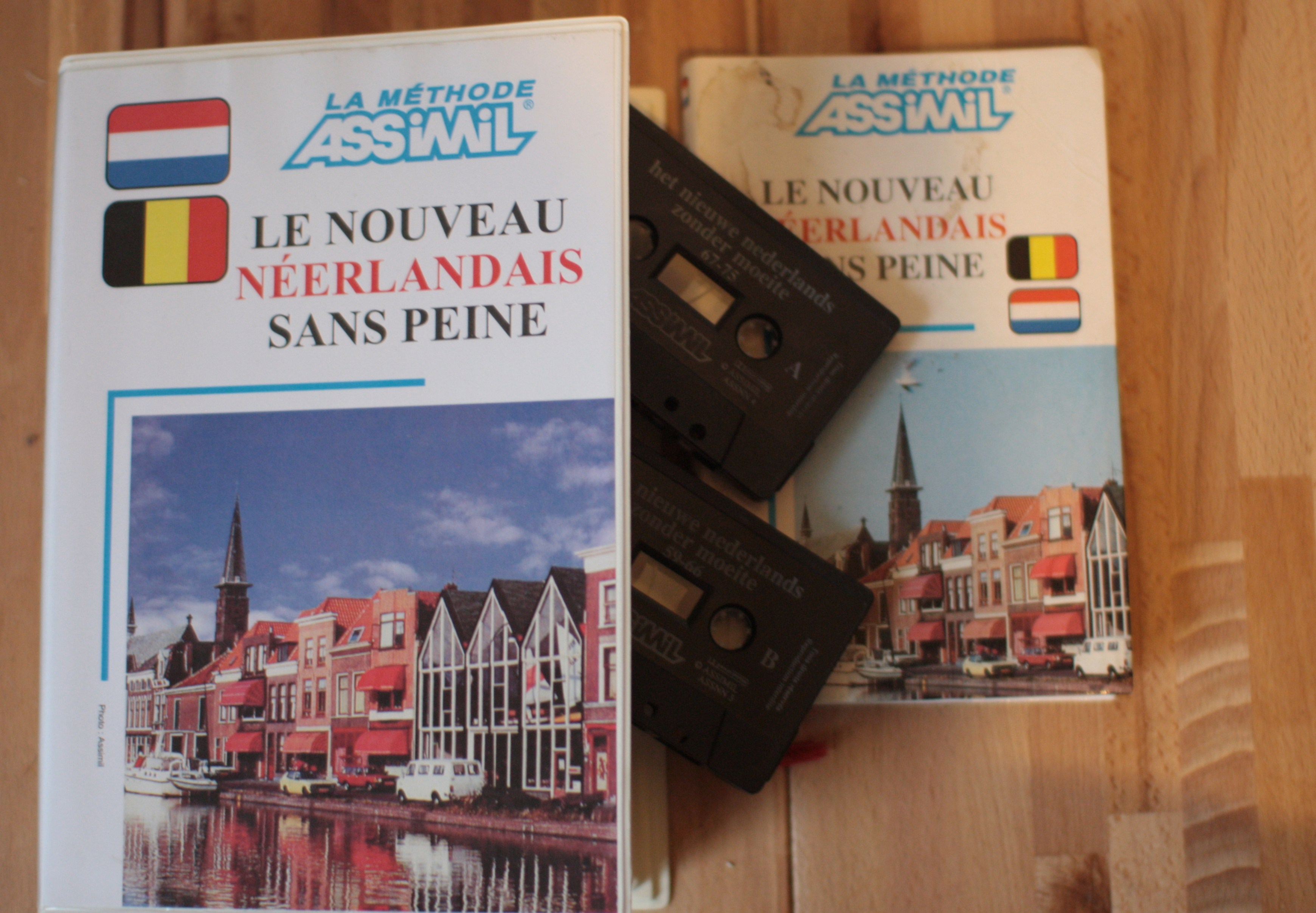 A languagecourse